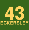 I, the Silent Wind of Doom made this picture on MSPaint to serve as a retired number on the Oakland Athletics page